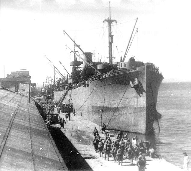 Soviet marines or infantry are loading on a ship